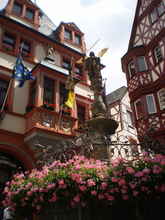 Tipical Houses in Bernkastel and the statue.